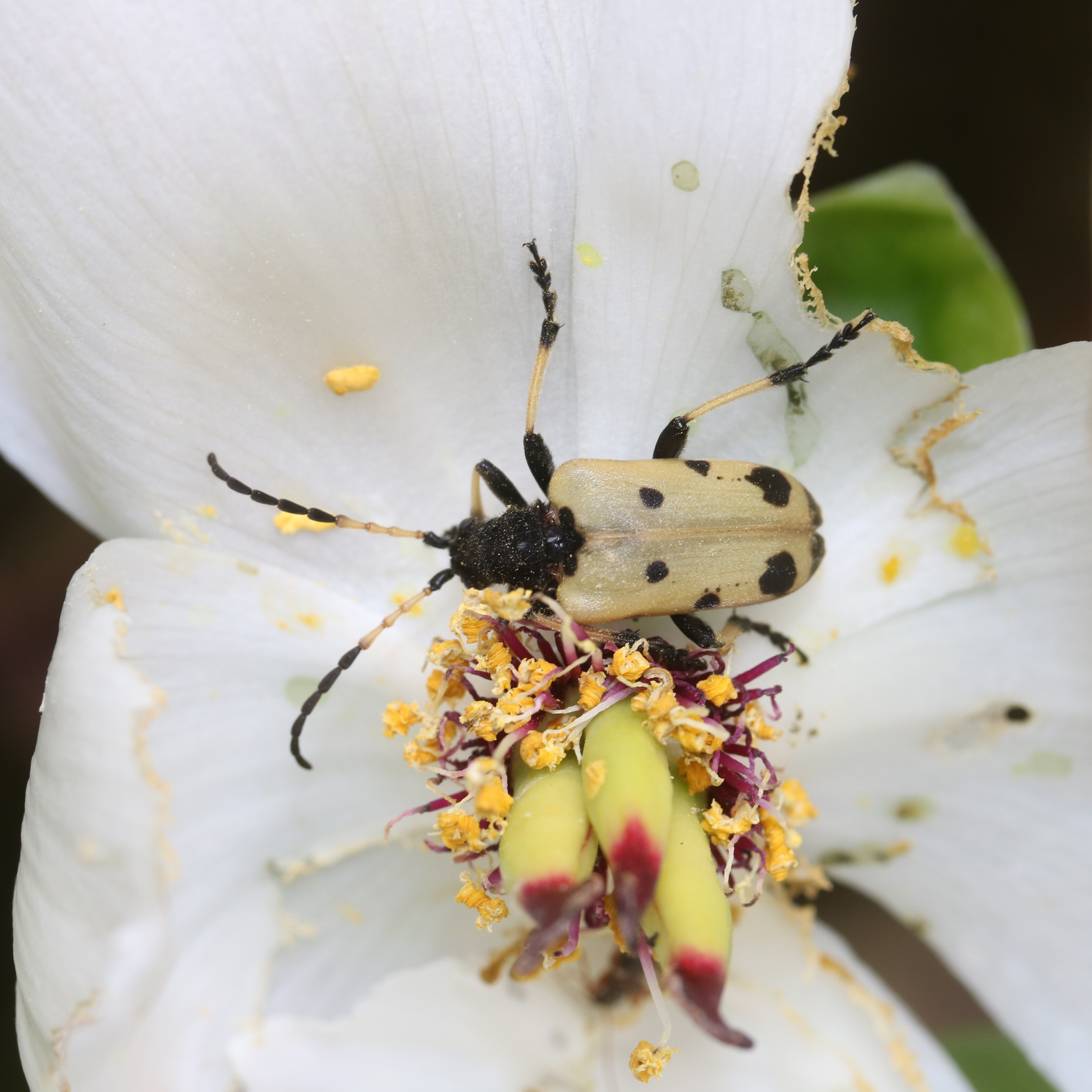 Brachyta bifasciata japonica on Paeonia japonica in Mount Ryozen of Suzuka Mountains, Taga, Shiga prefecture, Japan.